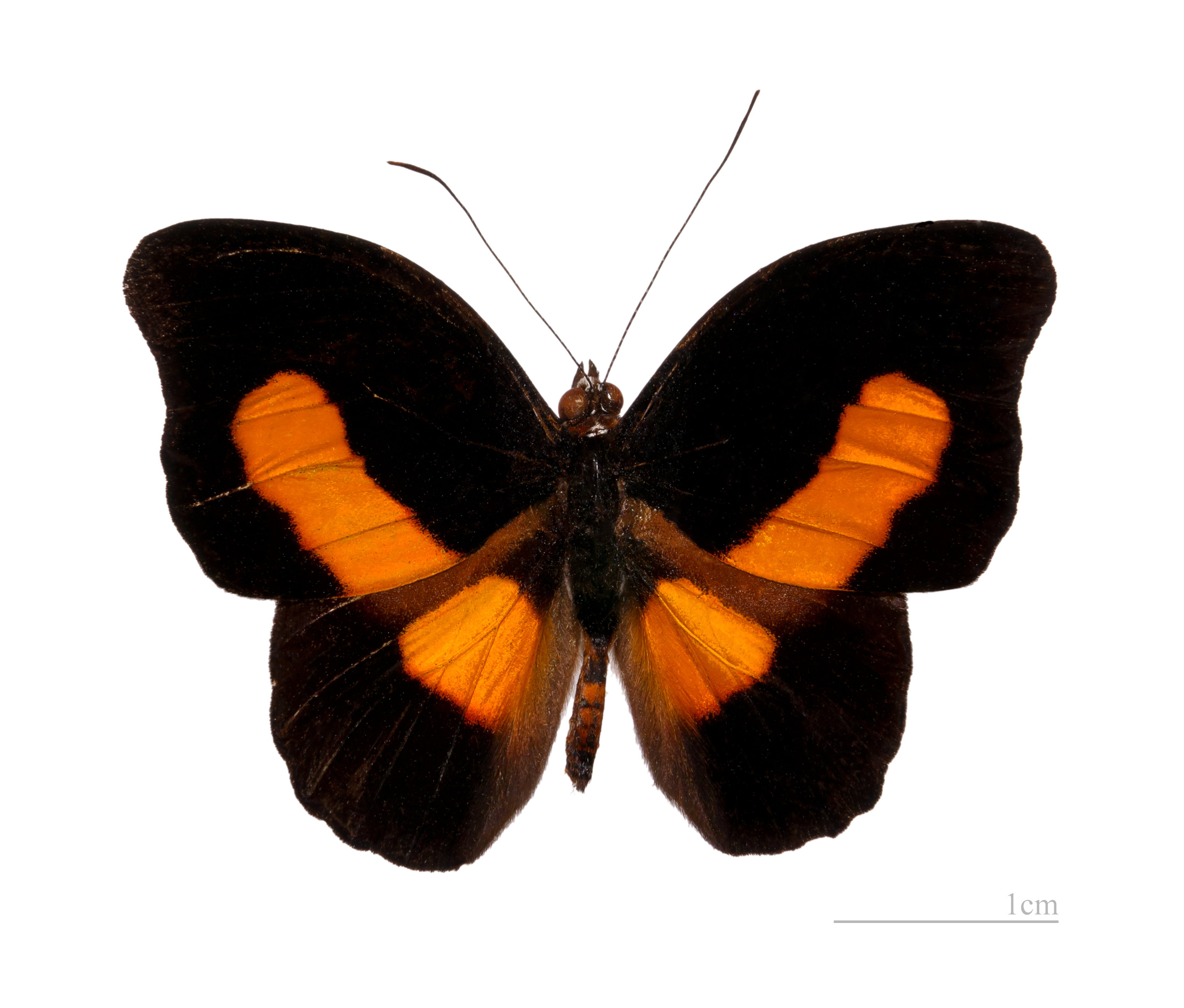 ♂ - Dorsal side Locality : Chutes Fourgassié, Route de Kaw, French Guiana.